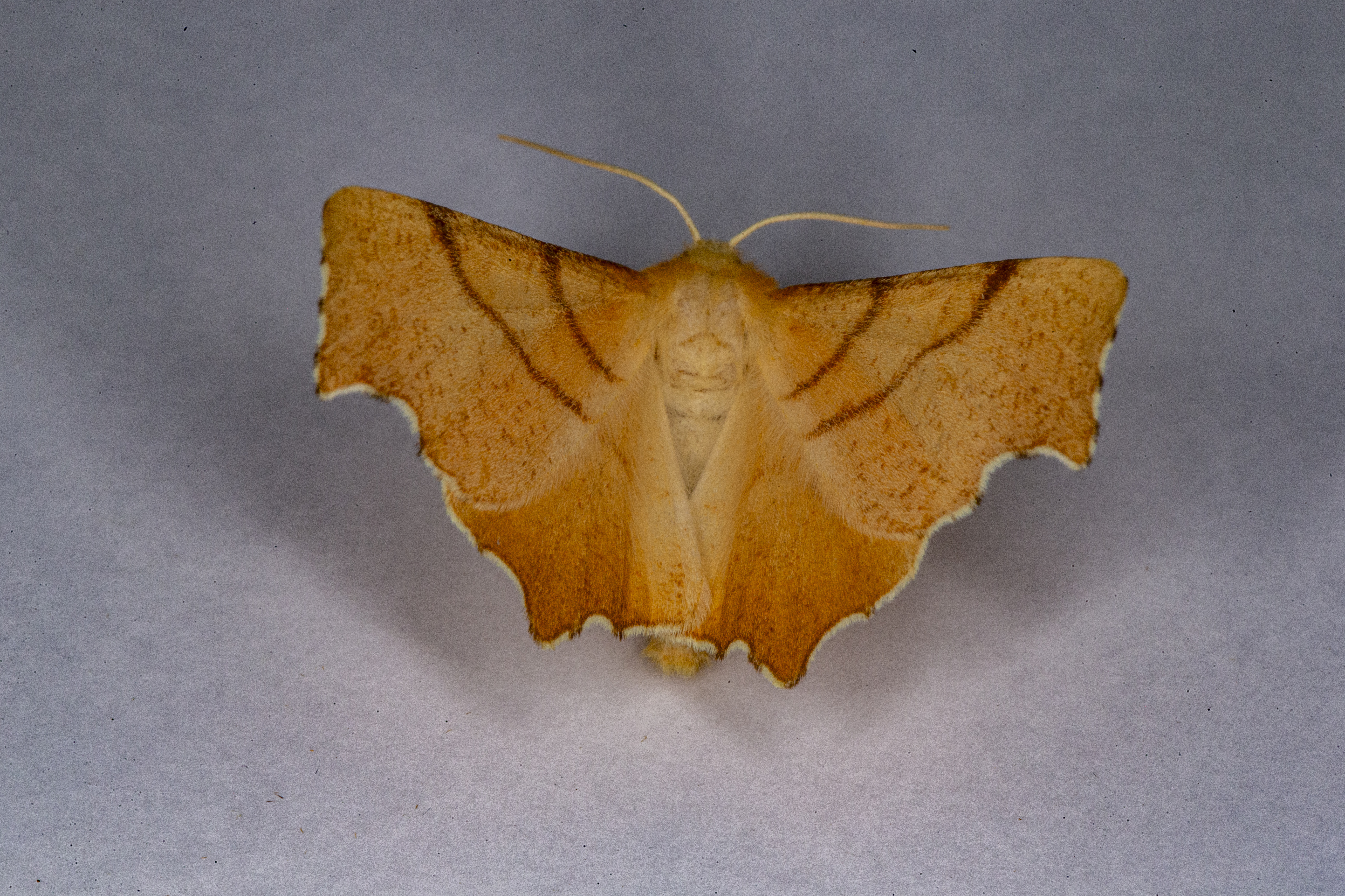 The September Thorn